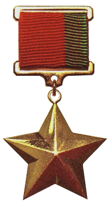 Stemp medal «Golden Star» of Belarus, 2008